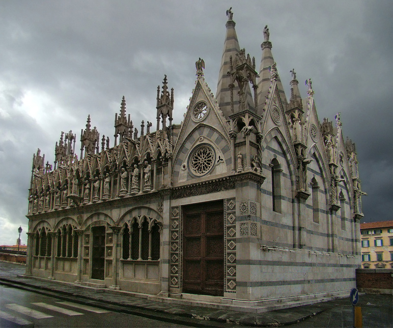 Church of Santa Maria della Spina, Pisa, Tuscany, Italy.